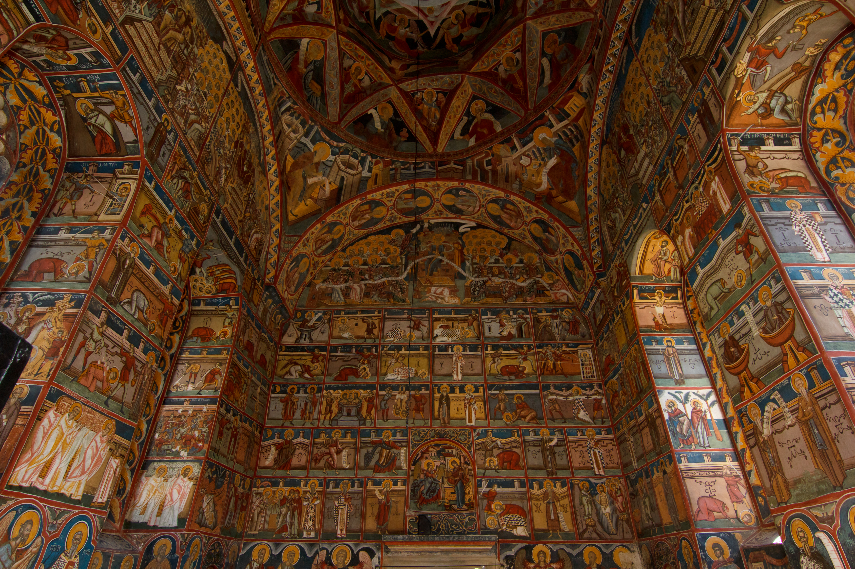 Moldovita Monastery's Church - Ante-temple detail 01